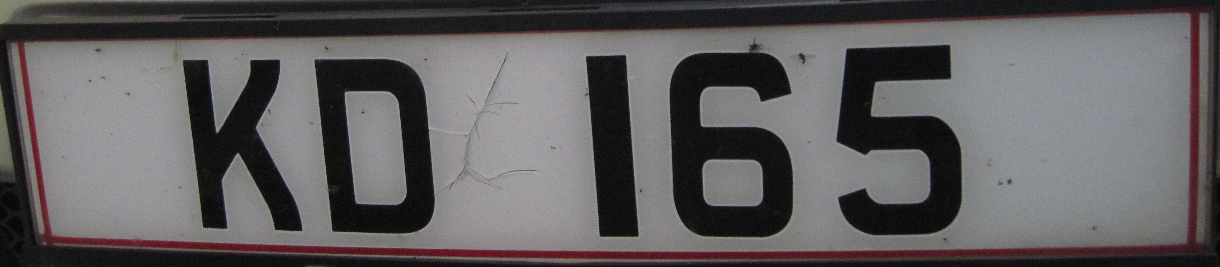 Northern Cyprus registration plate. This type is issued from 1983 to today (2017).